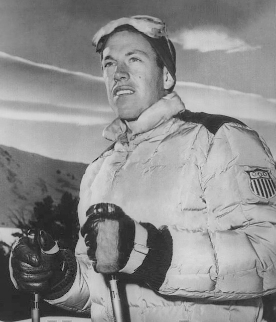 1959 Press Photo NCAA skiing champ, Marvin Melville, works out for Olympics